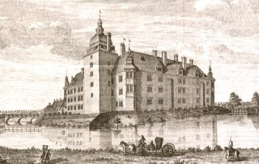 Old lithograph of Nykøbing Slot or Nykøbing Castle which stood in Nykøbing Falster, Denmark, from 1594 to 1767